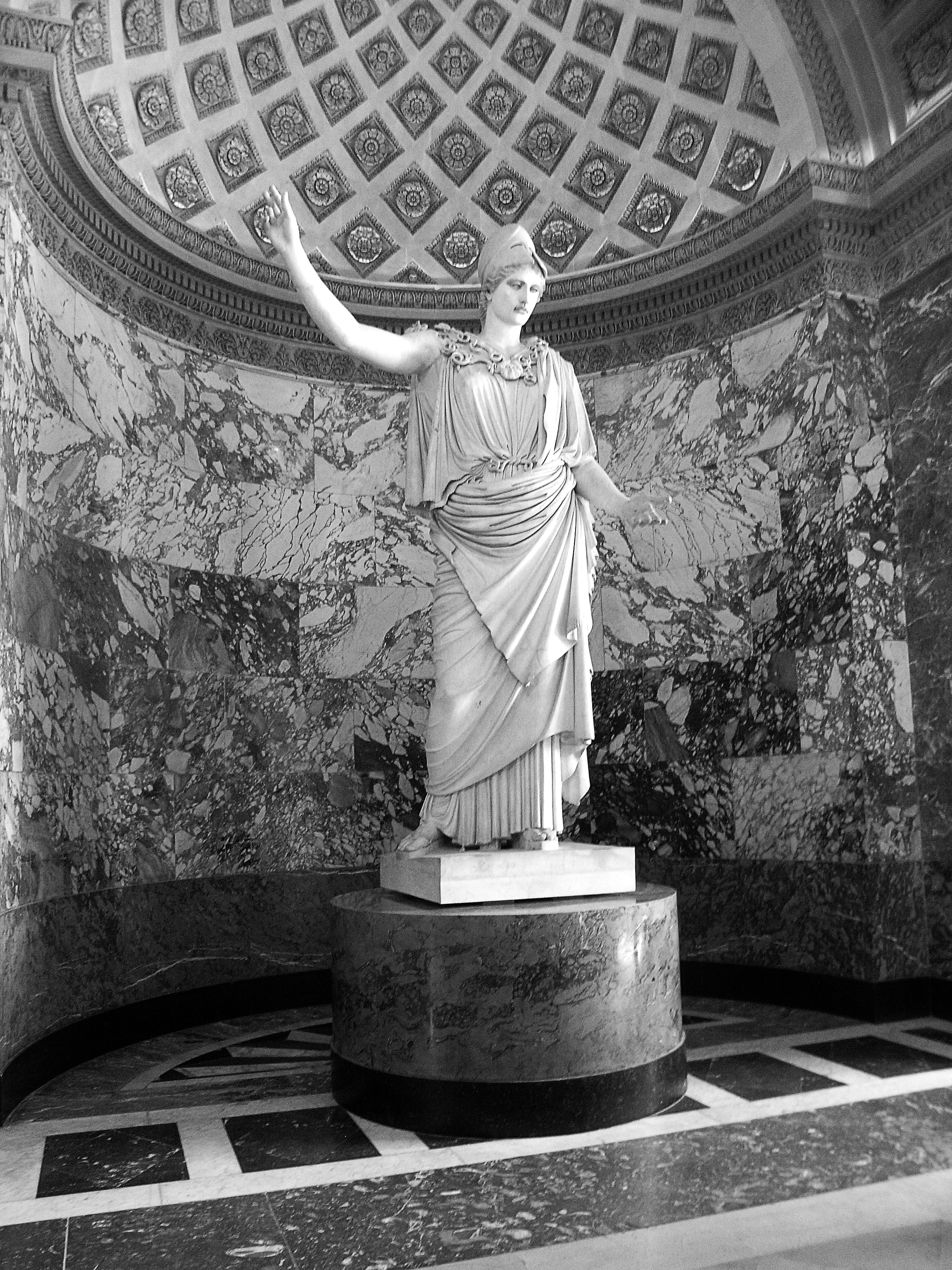 So-called "Velletri Pallas": Helmeted Athena. Marble with traces of red colour, Roman copy of the 1st century CE after a bronze original of the 5th century. Found in 1797 in the ruins of a Roman villa near Velletri.